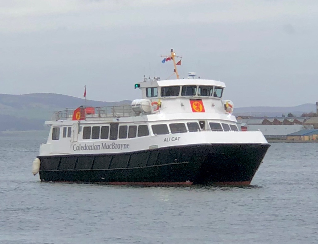 Passenger ferry Ali Cat in Caledonian MacBrayne (CalMac) livery, after being repainted from the livery of Argyll Ferries which had featured from 2011 on the Gourock to Dunoon service. Seen in Gourock Bay, waiting for access to the ferry terminal linkspan which was occupied at the time by Argyll Flyer.